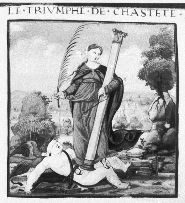 Illustration of Petrarch's Triumph of Chastity.